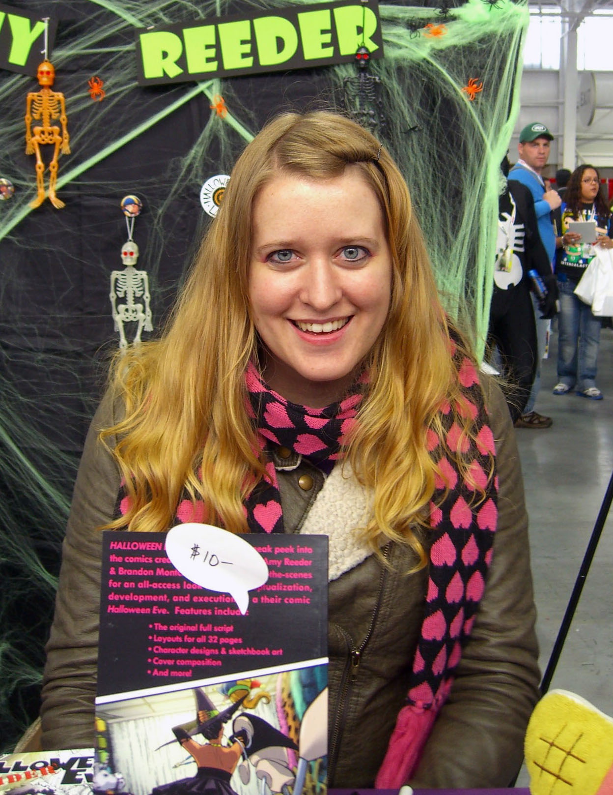 Comics creator Amy Reeder on Day 2 of the 2012 New York Comic Con, Friday October 12, 2012 at the Jacob K. Javits Convention Center in Manhattan. This photo was created by Luigi Novi. It is not in the public domain, and use of this file outside of the licensing terms is a copyright violation.